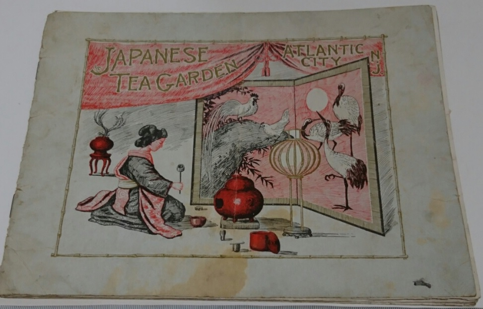 Book cover of "Japanese Tea Garden Atlantic City N.J."